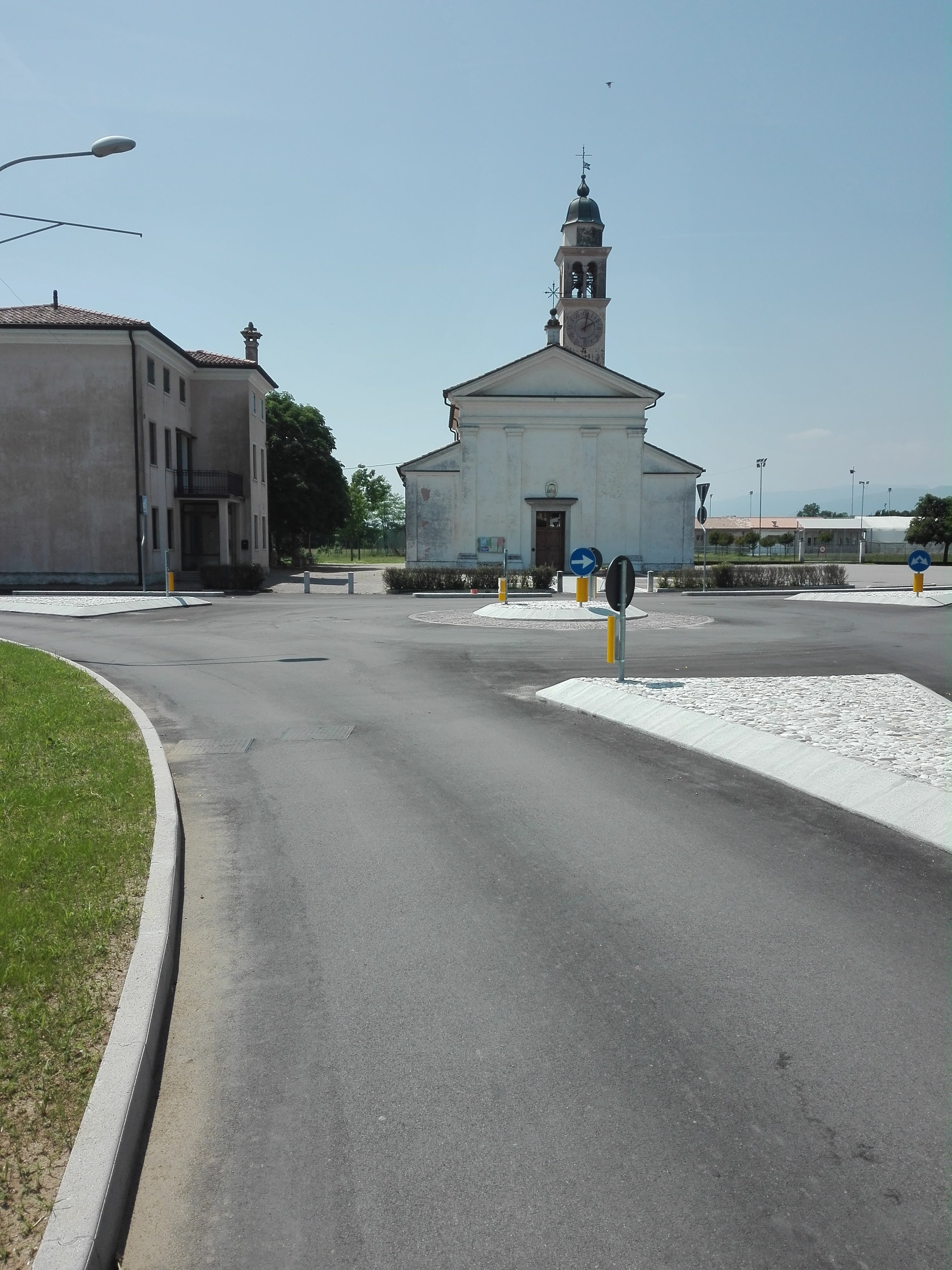 Chiesa parrocchiale di Sant'Apollinare in Casella d'Asolo